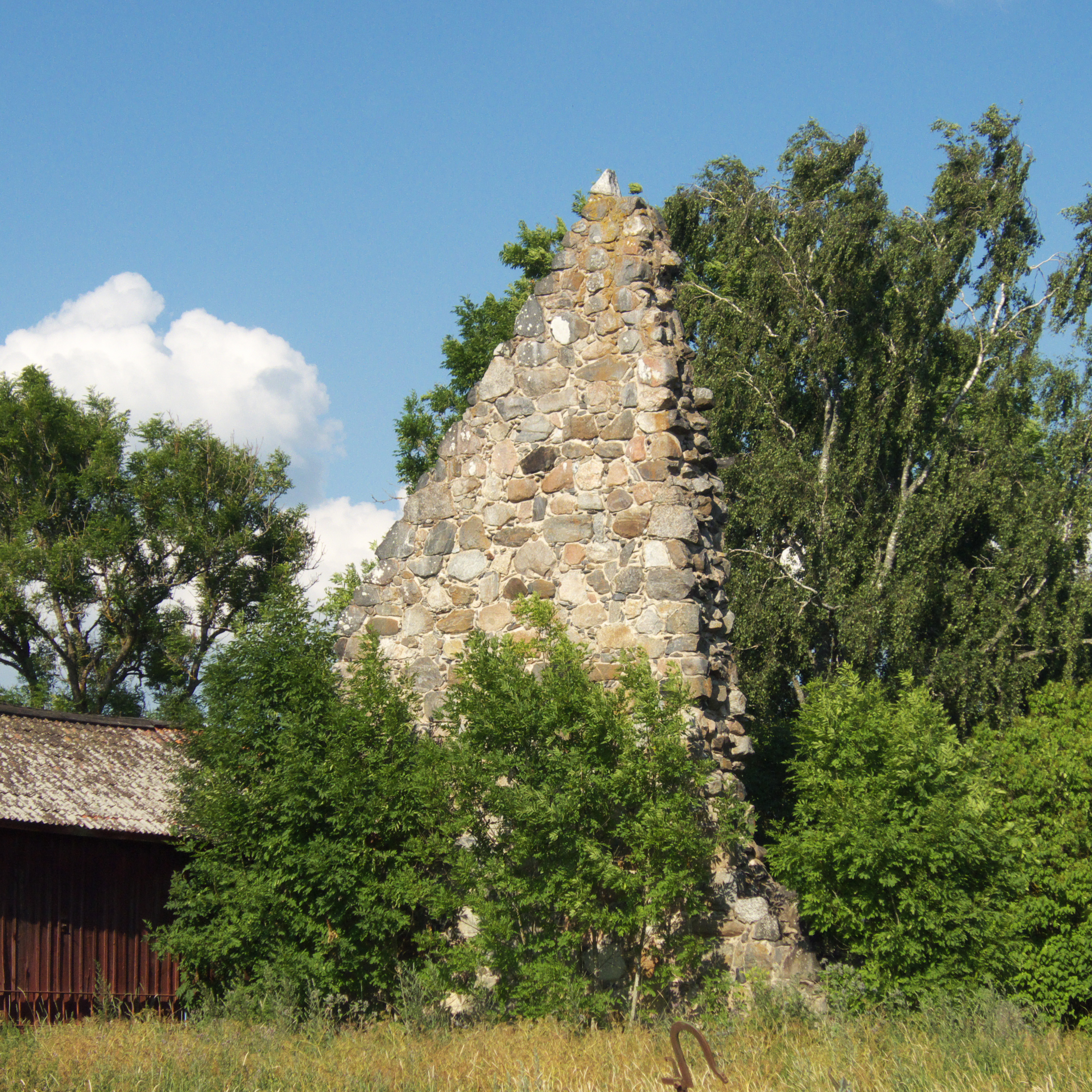 Furby church ruin